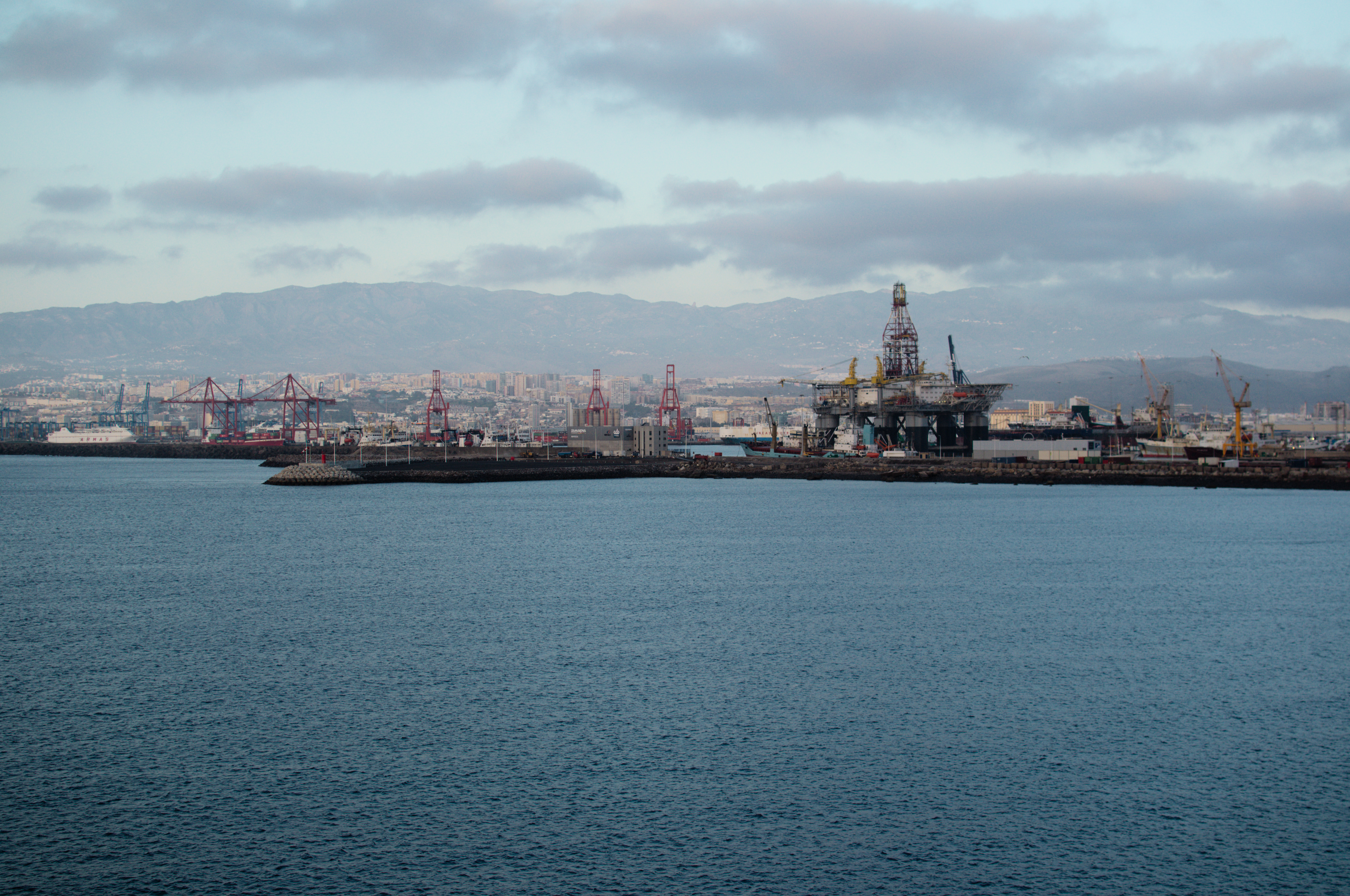 View of the Port of Las Palmas from the dock of La Esfinge. In the background, the city of Las Palmas de Gran Canaria.